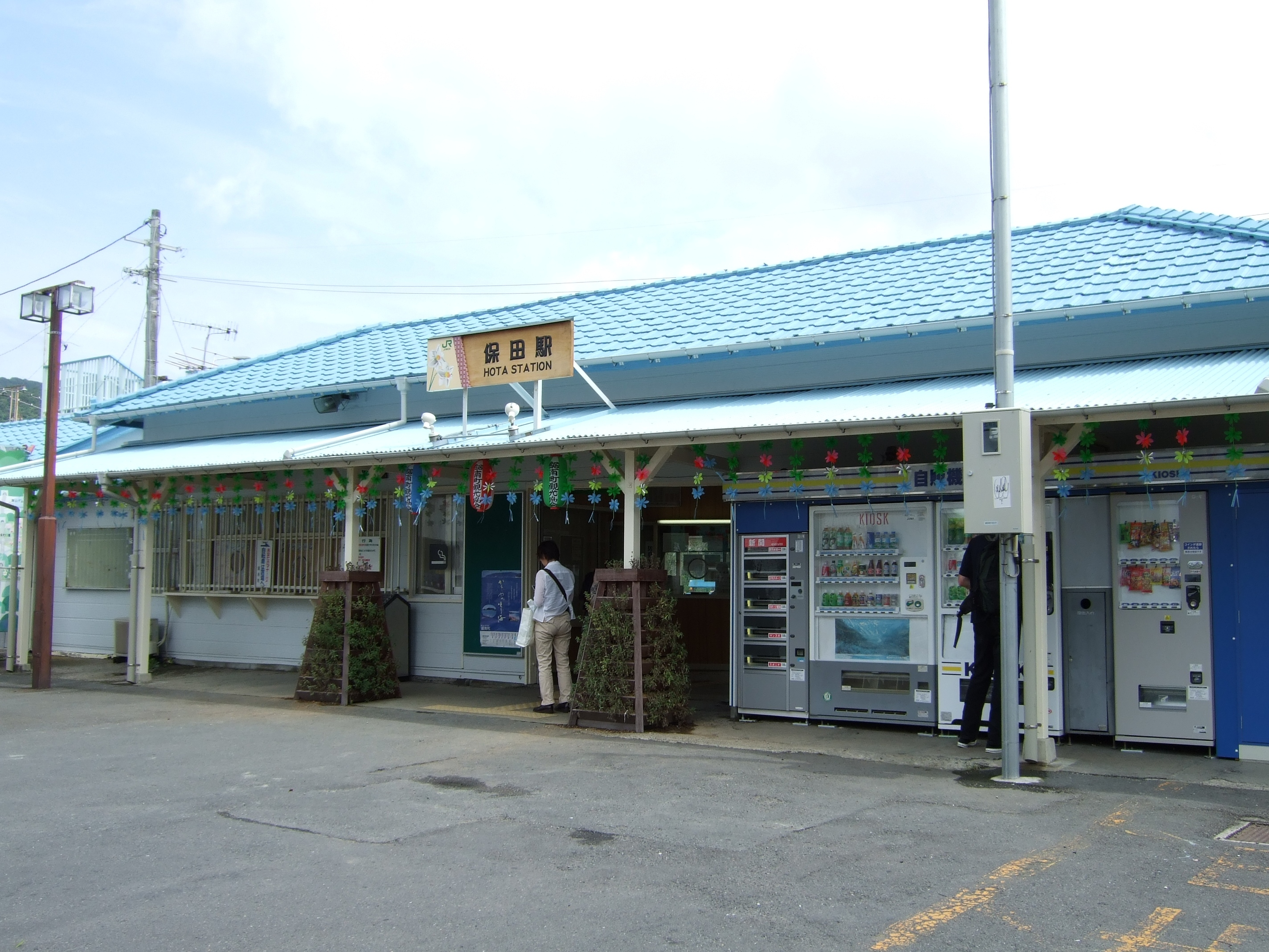 Hota Station. In Chiba, Japan.